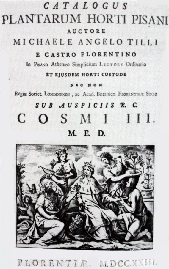 Title page of "Catalogus Plantarum Horti Pisani"